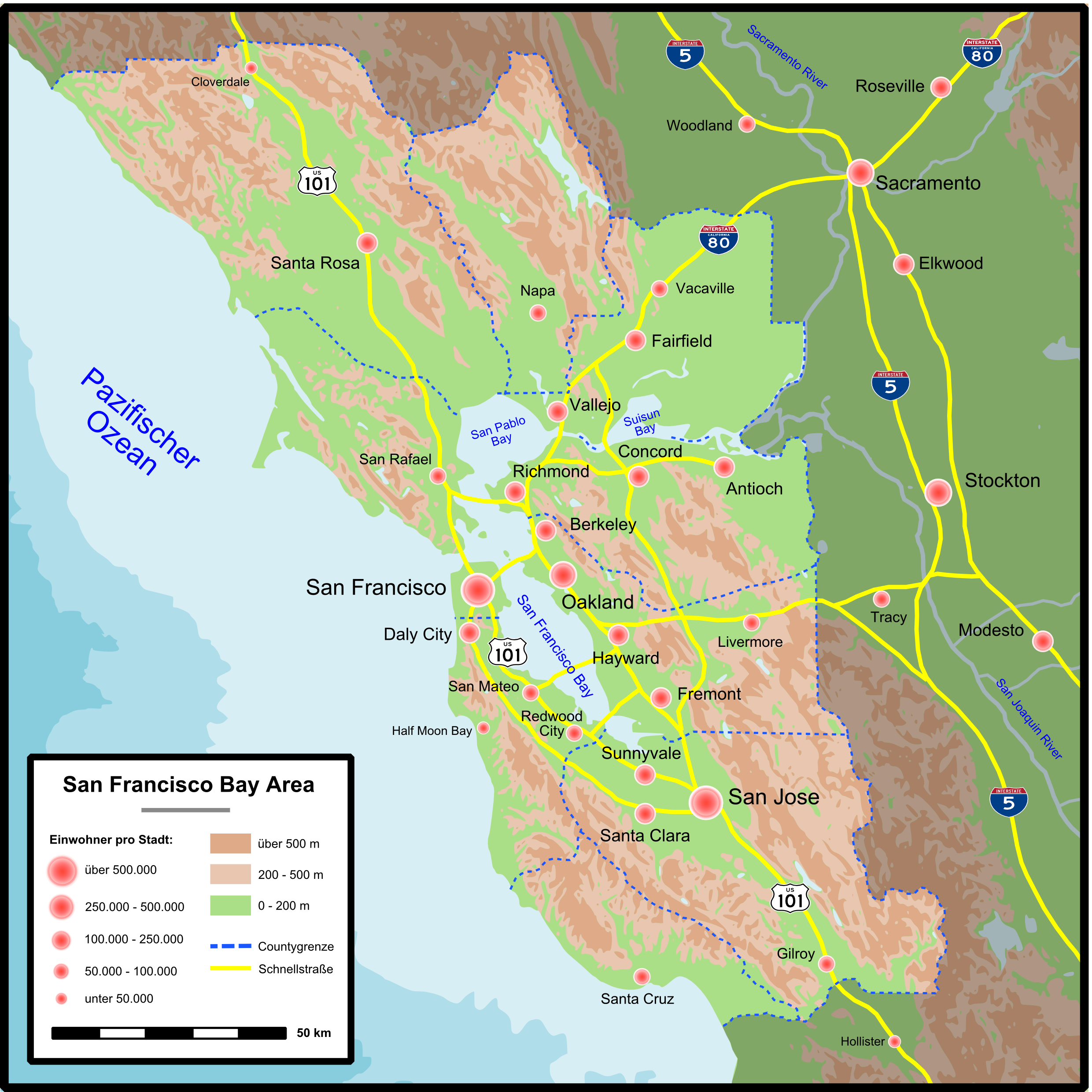 Topography map, with other natural features, of the San Francisco Bay Area.